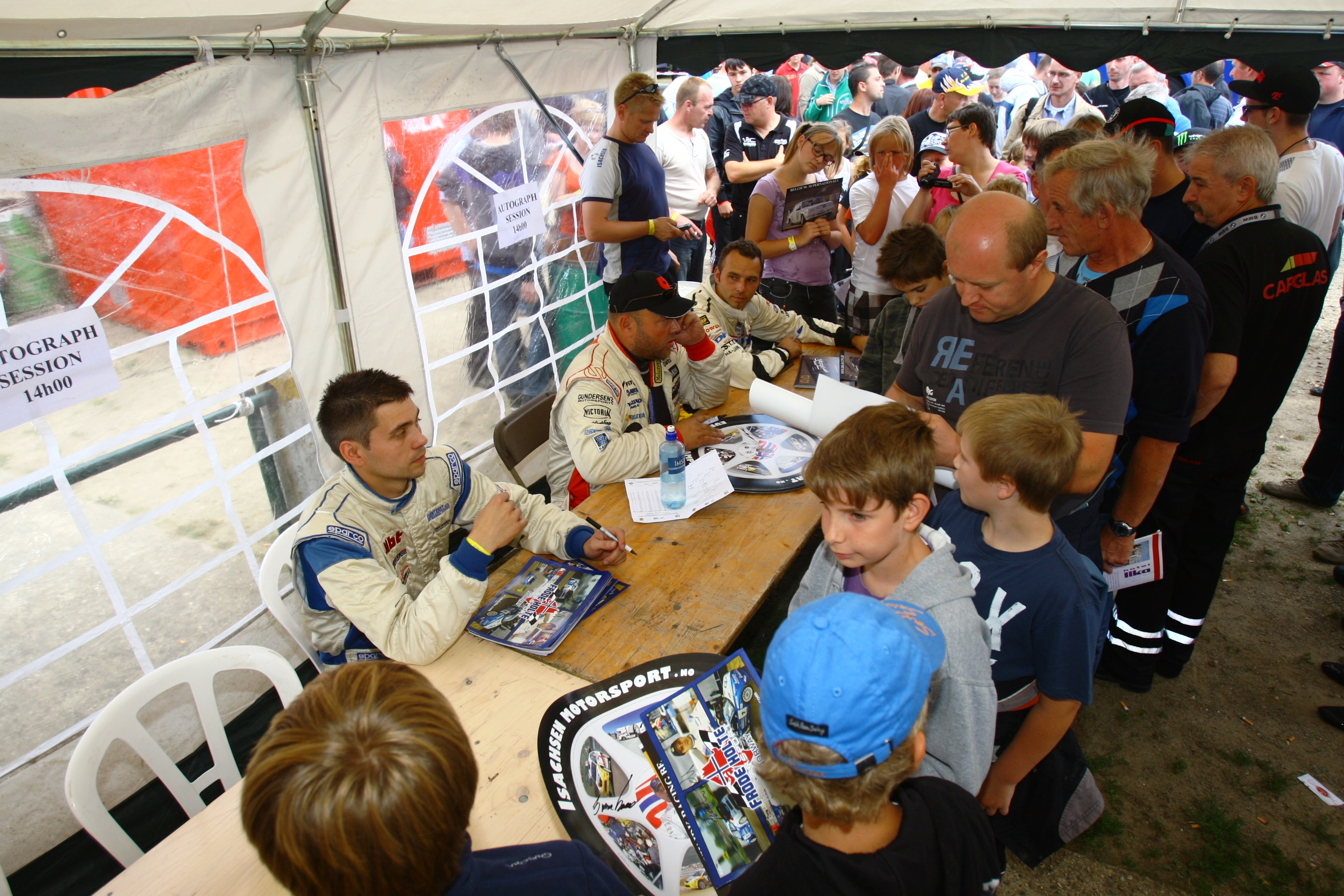 Autograph session for the fans pictured during the 2011 Belgian FIA European Rallycross Championship round at Maasmechelen. The drivers from left: Frode Holte (Norway), Sverre Isachsen (Norway) and Michaël De Keersmaecker (Belgium).